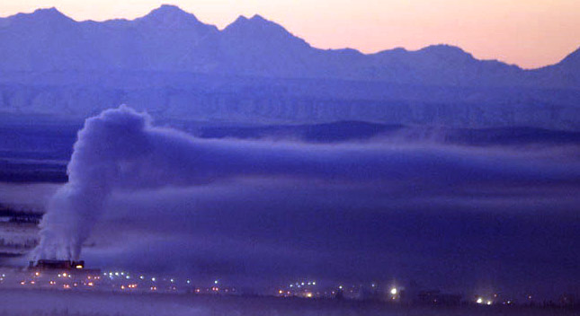 Ice fog over Fairbanks, Alaska in winter 2005. Temperature approximately minus 30F. Note the mirage at the base of the Alaska Range.